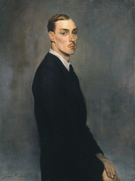 Glyn Philpot Portrait of Gerald Caldwell Siordet by GLYN WARREN PHILPOT